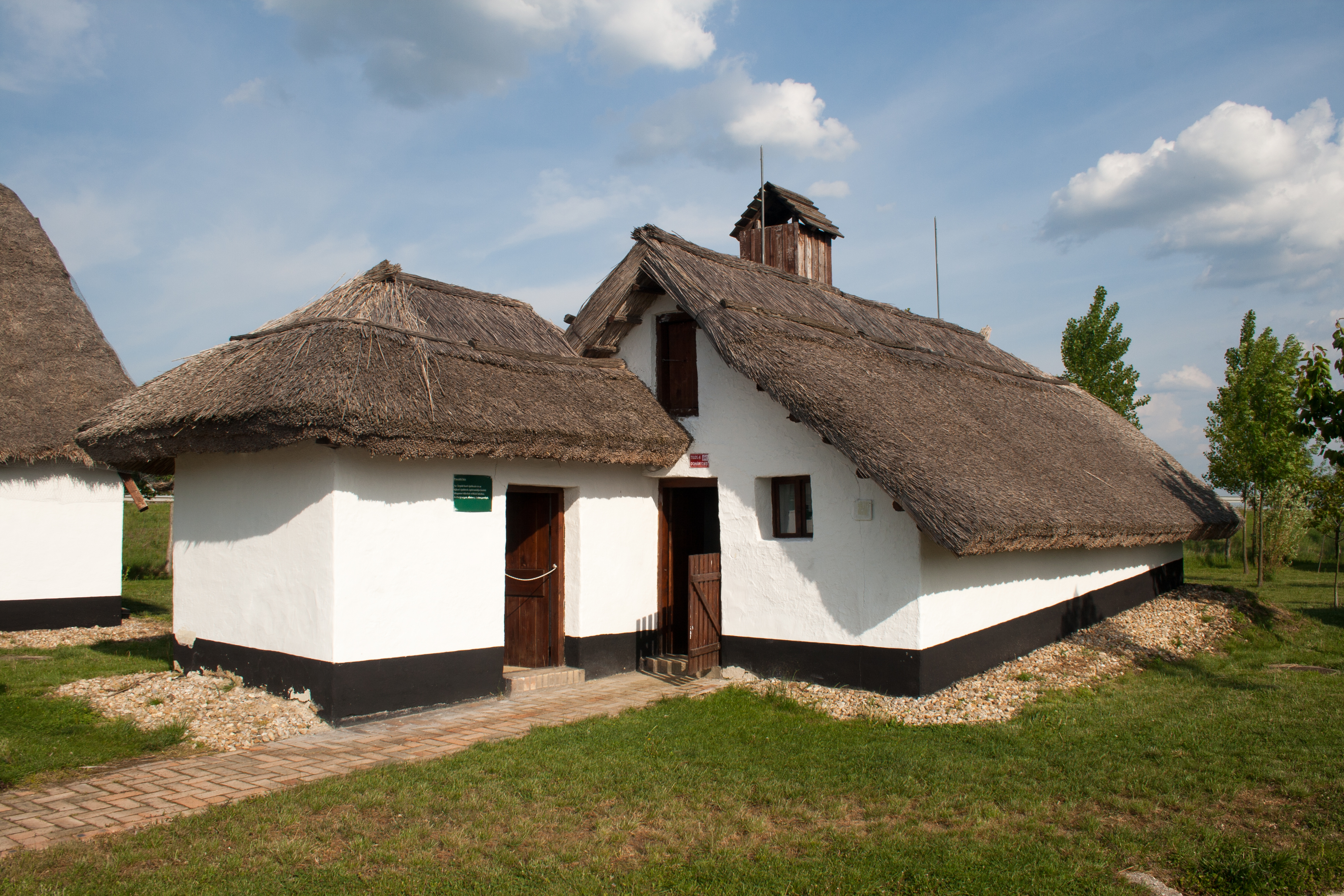 House from Paszab